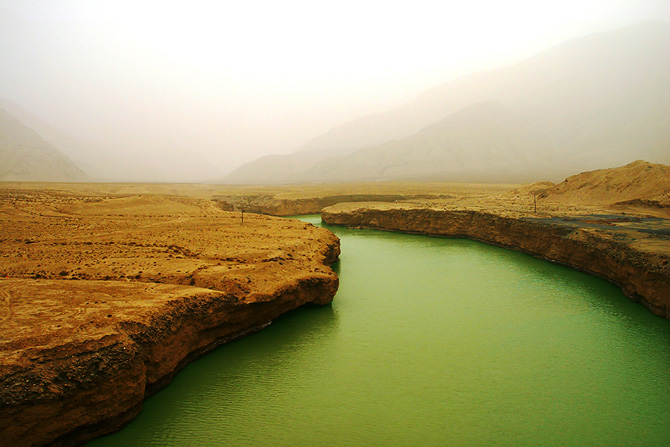 Qumar River